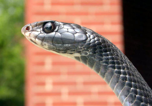 Northern Black Racer, Coluber constrictor constrictor, detail of head as snake was "periscoping" near a sidewalk. Location: Durham County, North Carolina, United States.